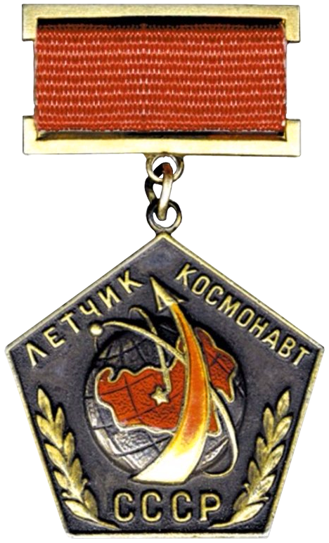 Pilot-Cosmonaut of the USSR badge